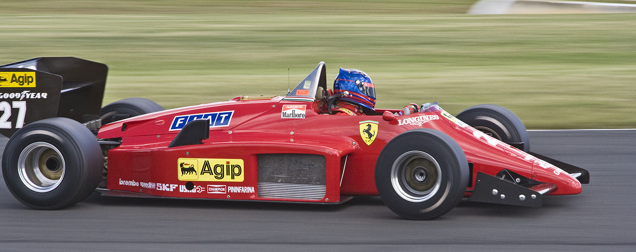 Eastern Creek (Sydney, Australia) April 2008. 1985 Ferrari 156/85 Turbo? Canon 40D with Tokina 80-400 Lens